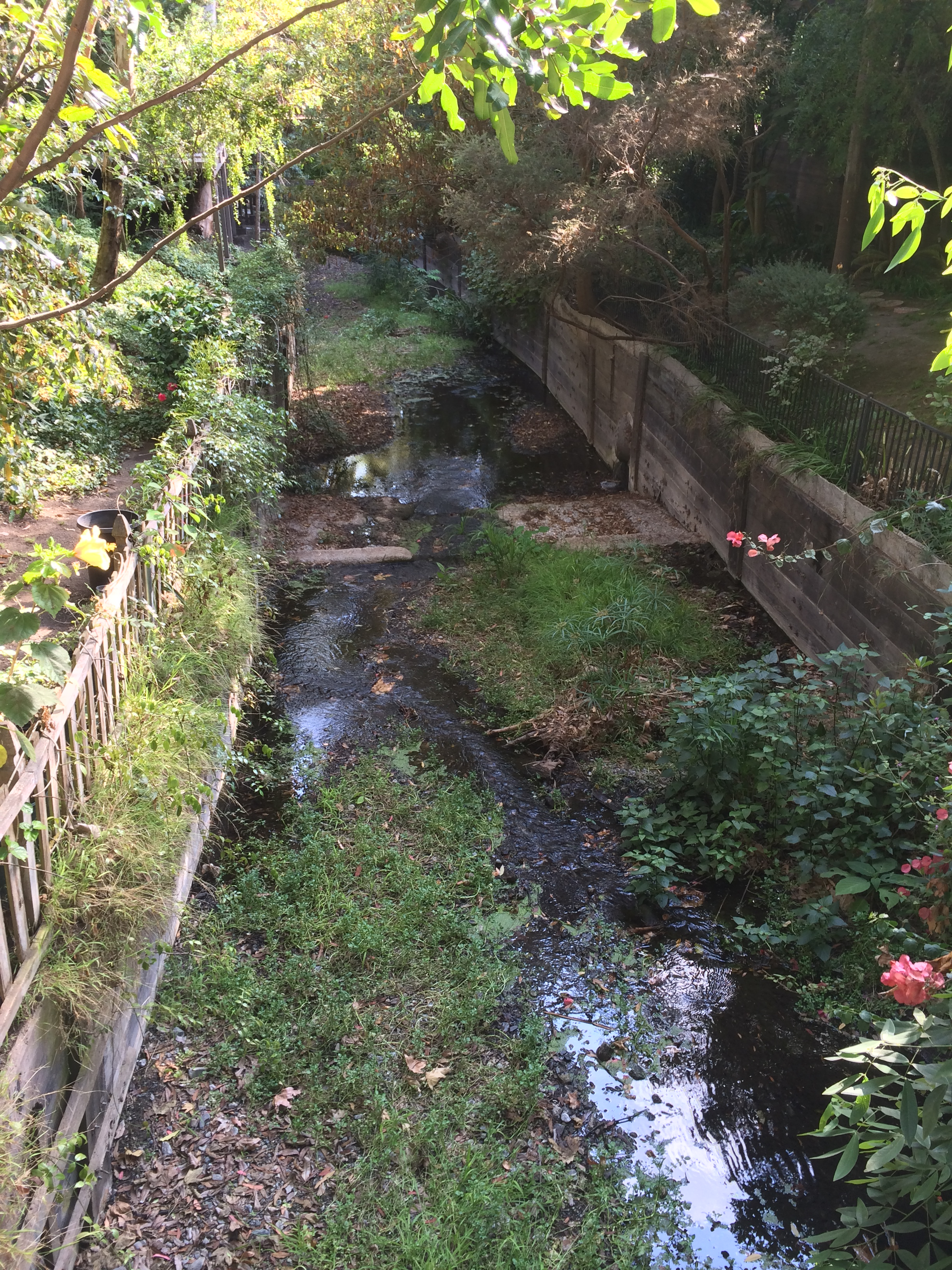 Rustic Creek, Pacific Palisades, Los Angeles, California View from Brooktree Road bridge, summer.